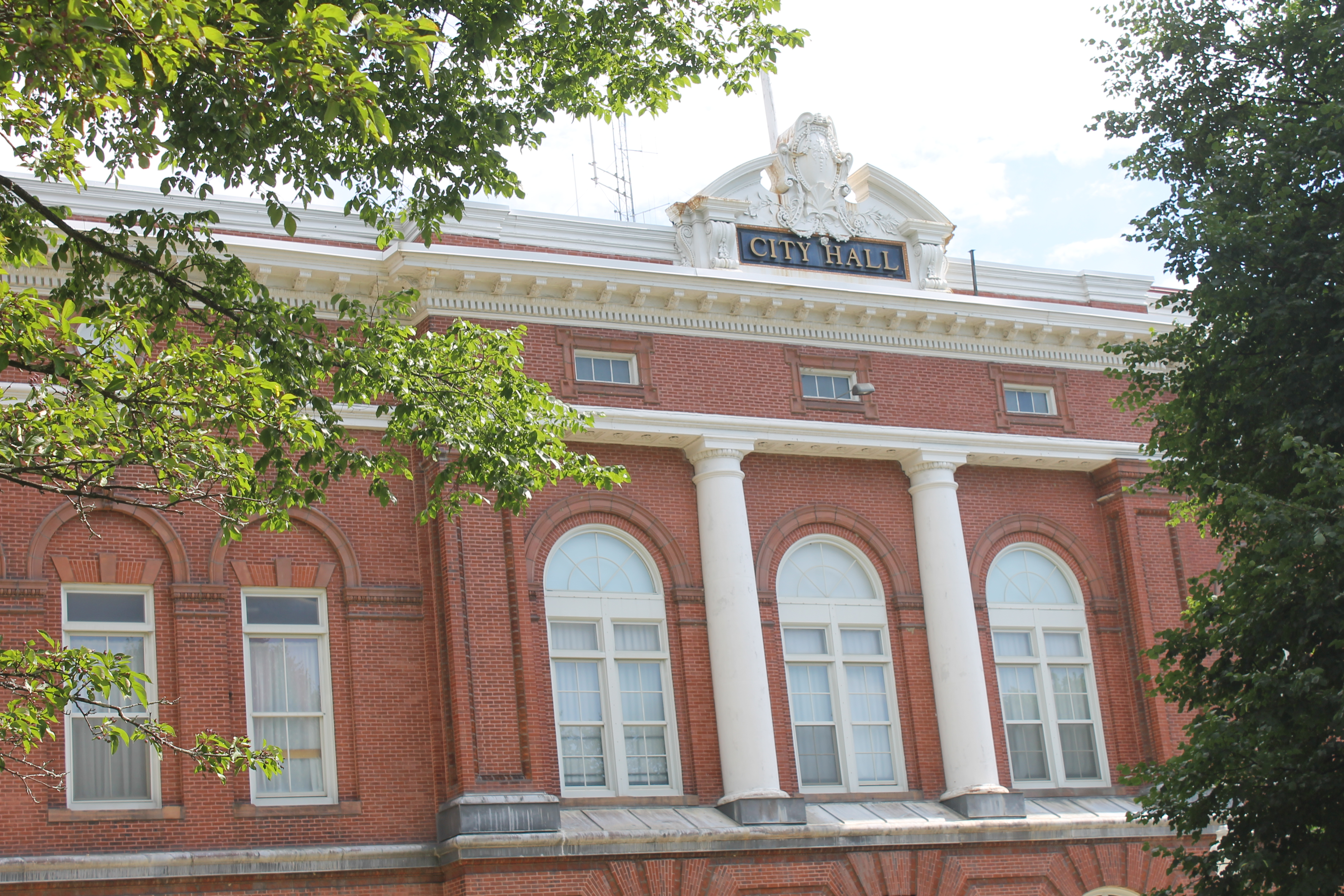 I took photo of Waterville, ME, City Hall, with Canon camera.